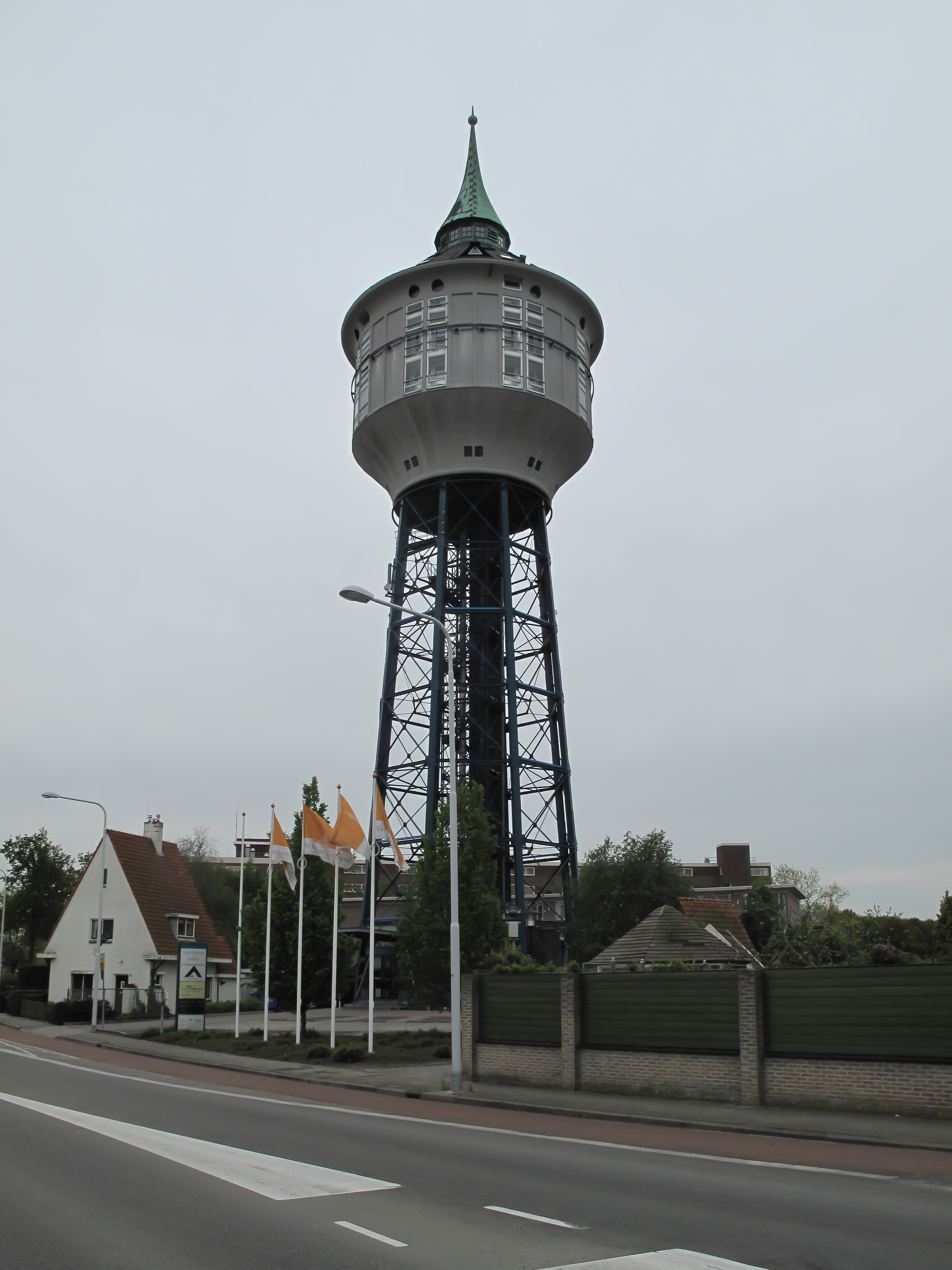 Goes, the watertower